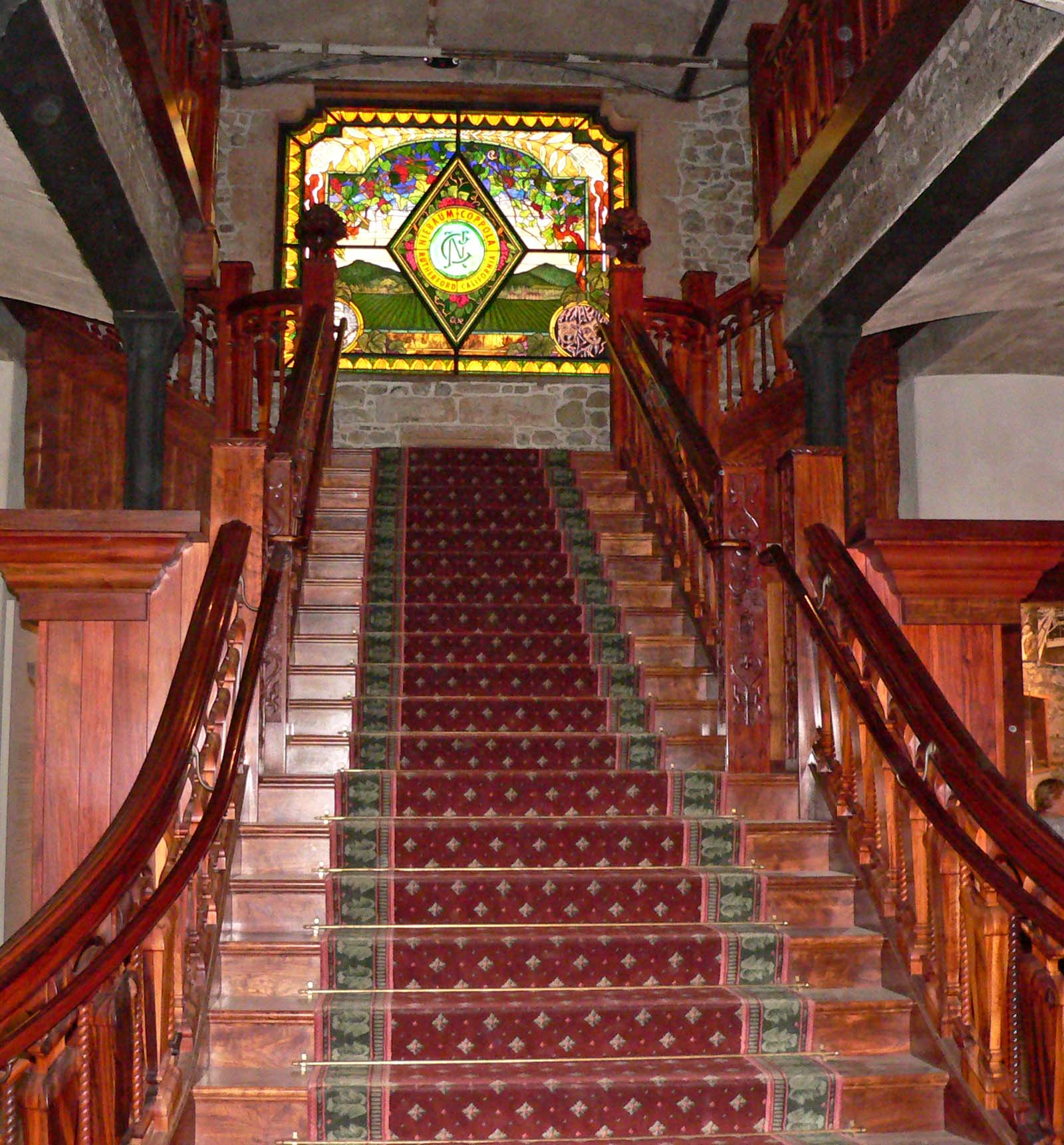 Photo of staircase at Niebaum-Coppola winery in Napa Valley, California